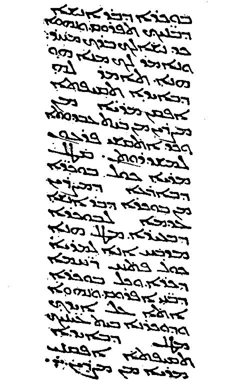 A section of British Library Add. MS. 14,425, a copy of the Peshitta, which is the Syriac translation of the Bible. The scribe of this manuscript added that it was written at Amida in AD 464. This excerpt contains the text of Exodus 13:14-16.